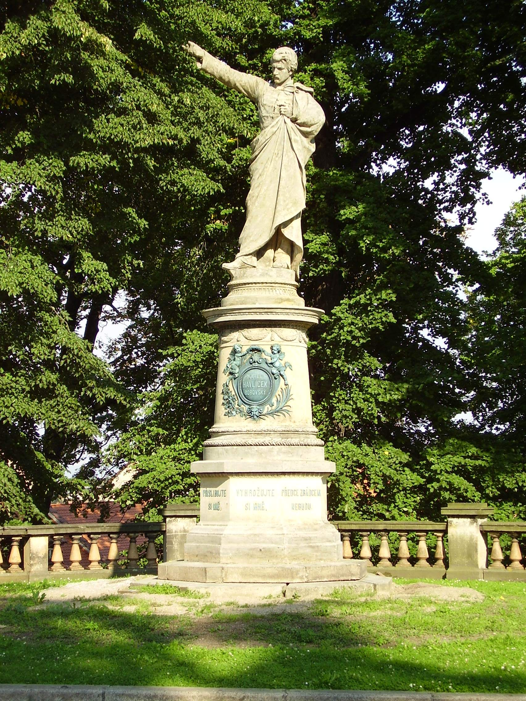 Monument of Karel Havlicek Borovsky in Havlíčkovo Sq, Kutna Hora